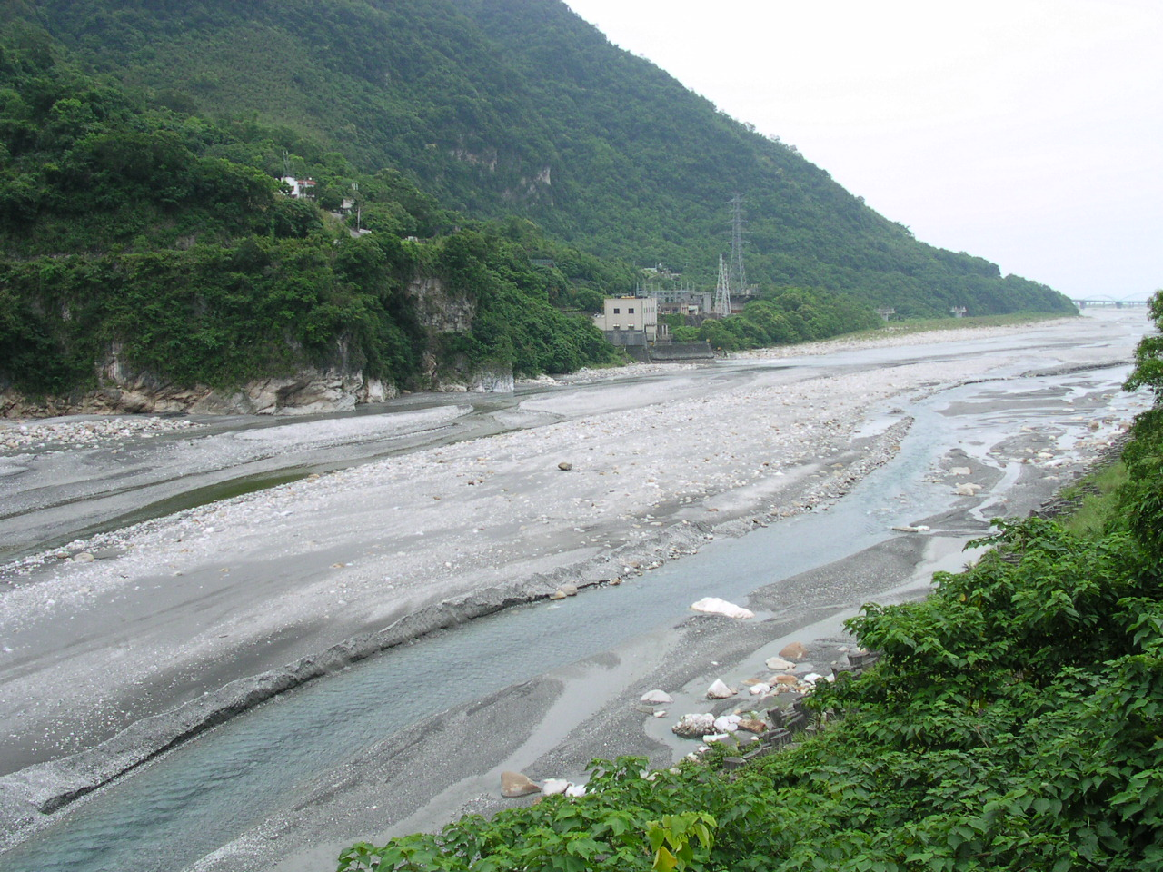 The "Li Wu" River in Hualien County, Taiwan